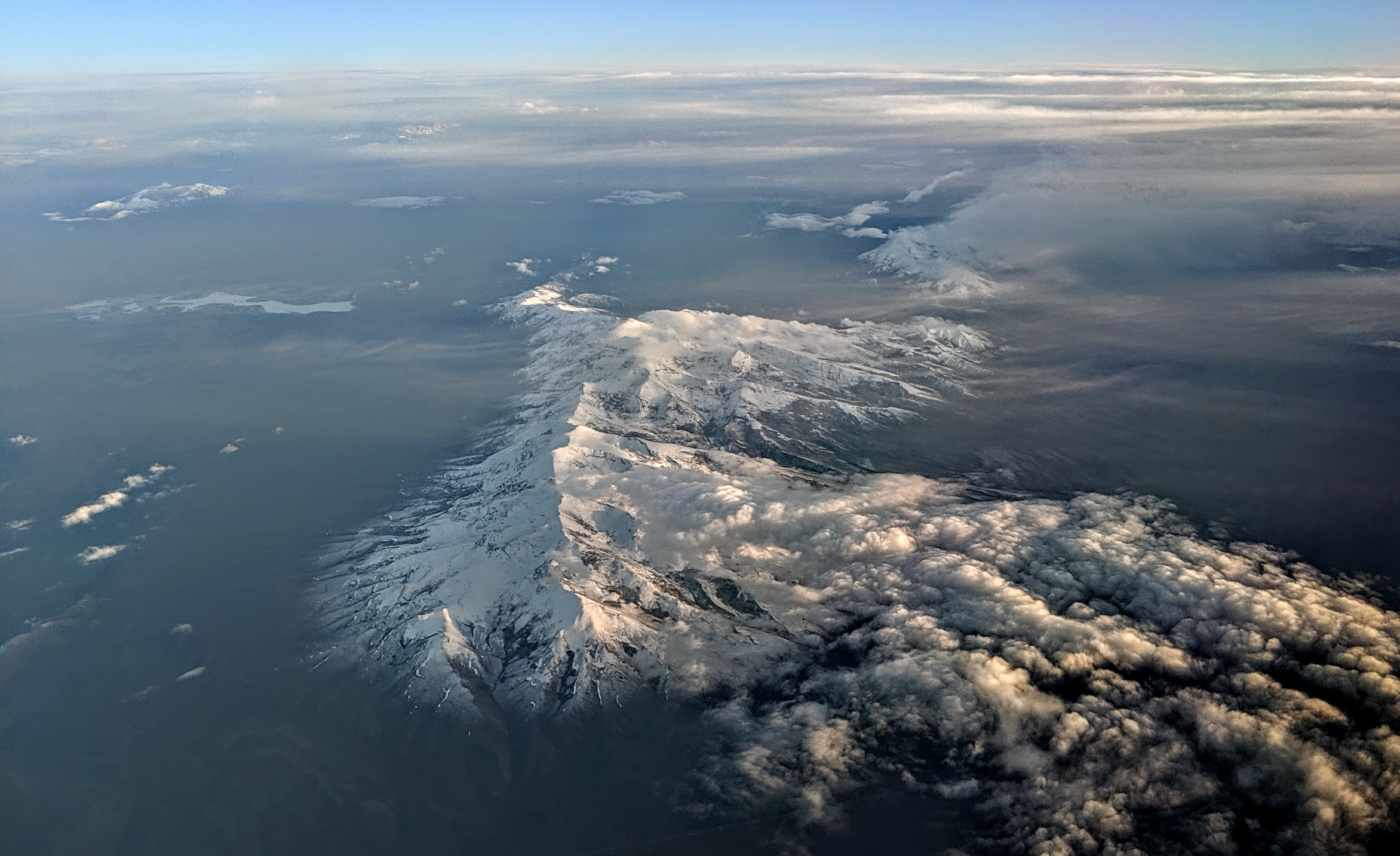 Aerial view from the north of Hole in the Mountain Peak and Humboldt Peak, Nevada, in May, 2019